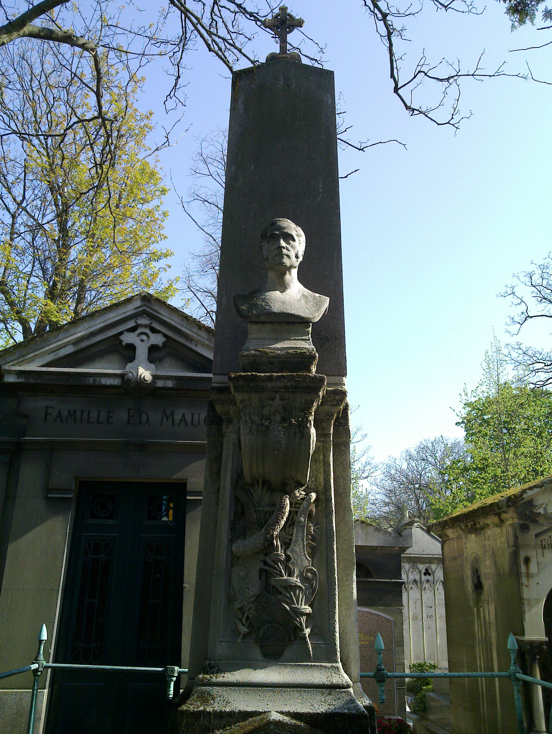 Daniel-François-Esprit Auber's grave, Père-Lachaise, Paris